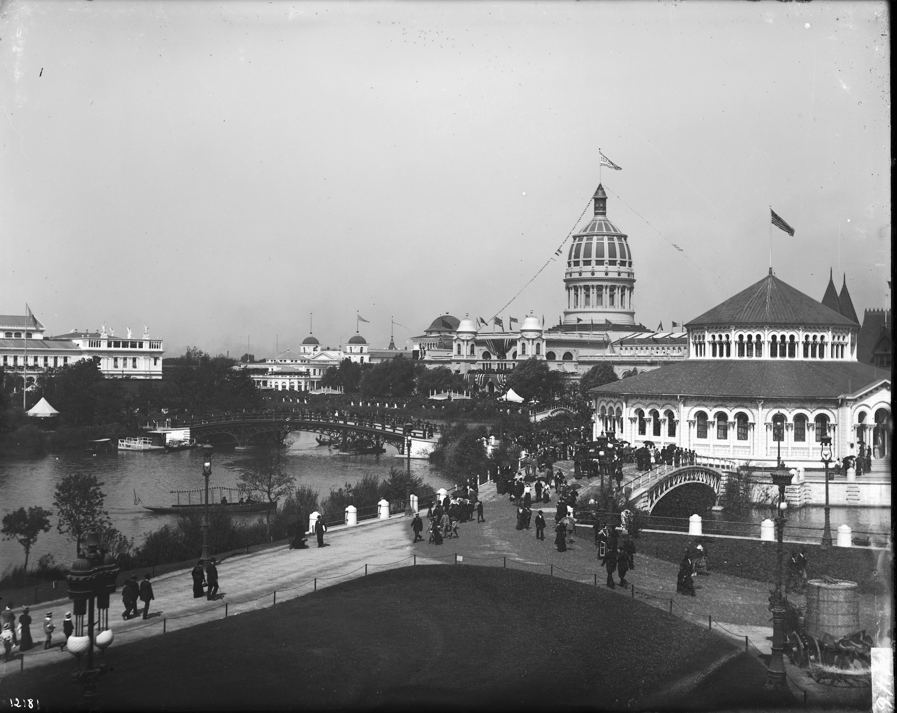 The World's Columbian Fair in Chicago, 1893. [Lagoon north west, Woman's Building (partial view), State Buildings, Illinois State Building, Fisheries Building]